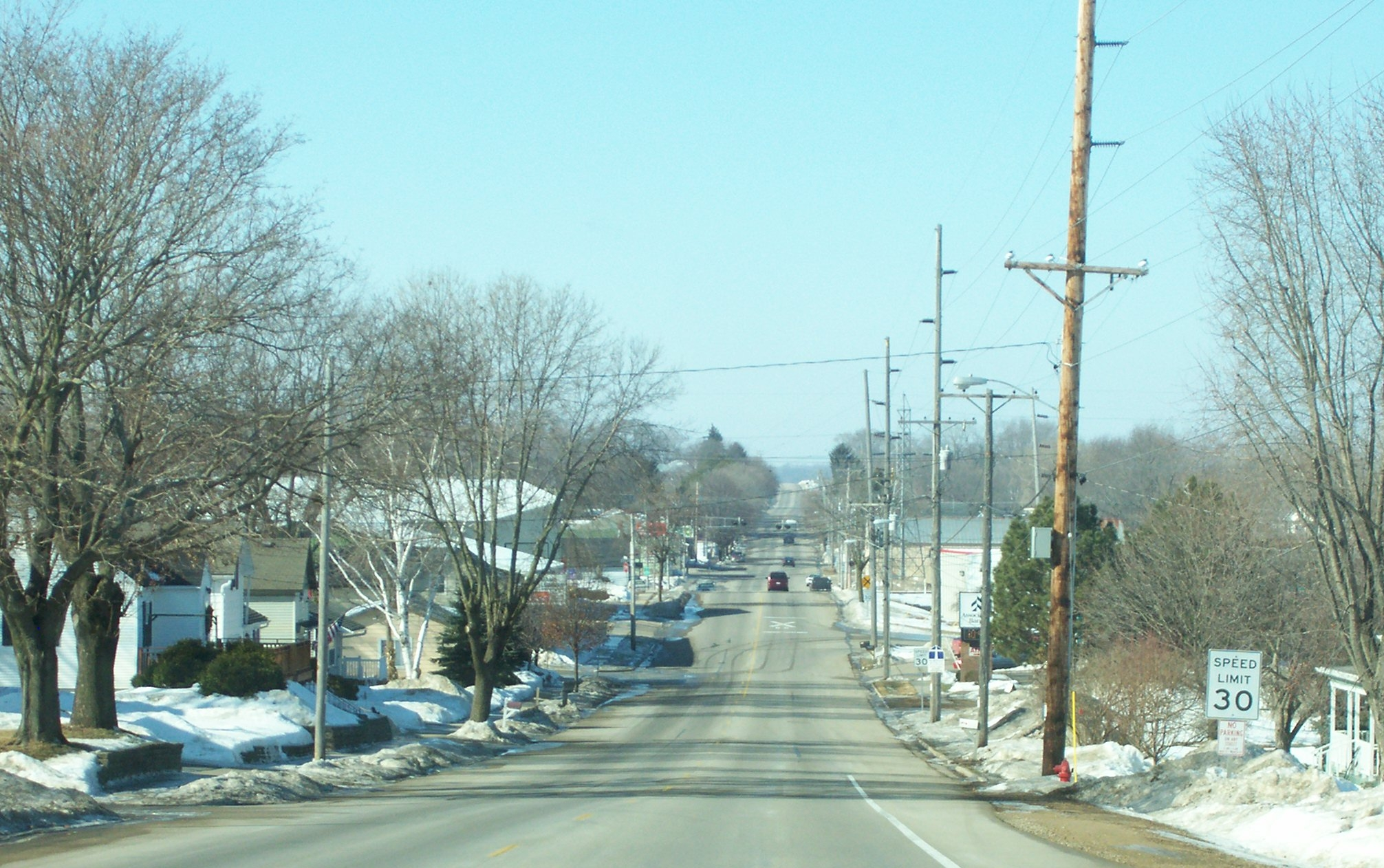 Looking west at Dane, Wisconsin (the village in Dane County), on Wisconsin Highway 113.